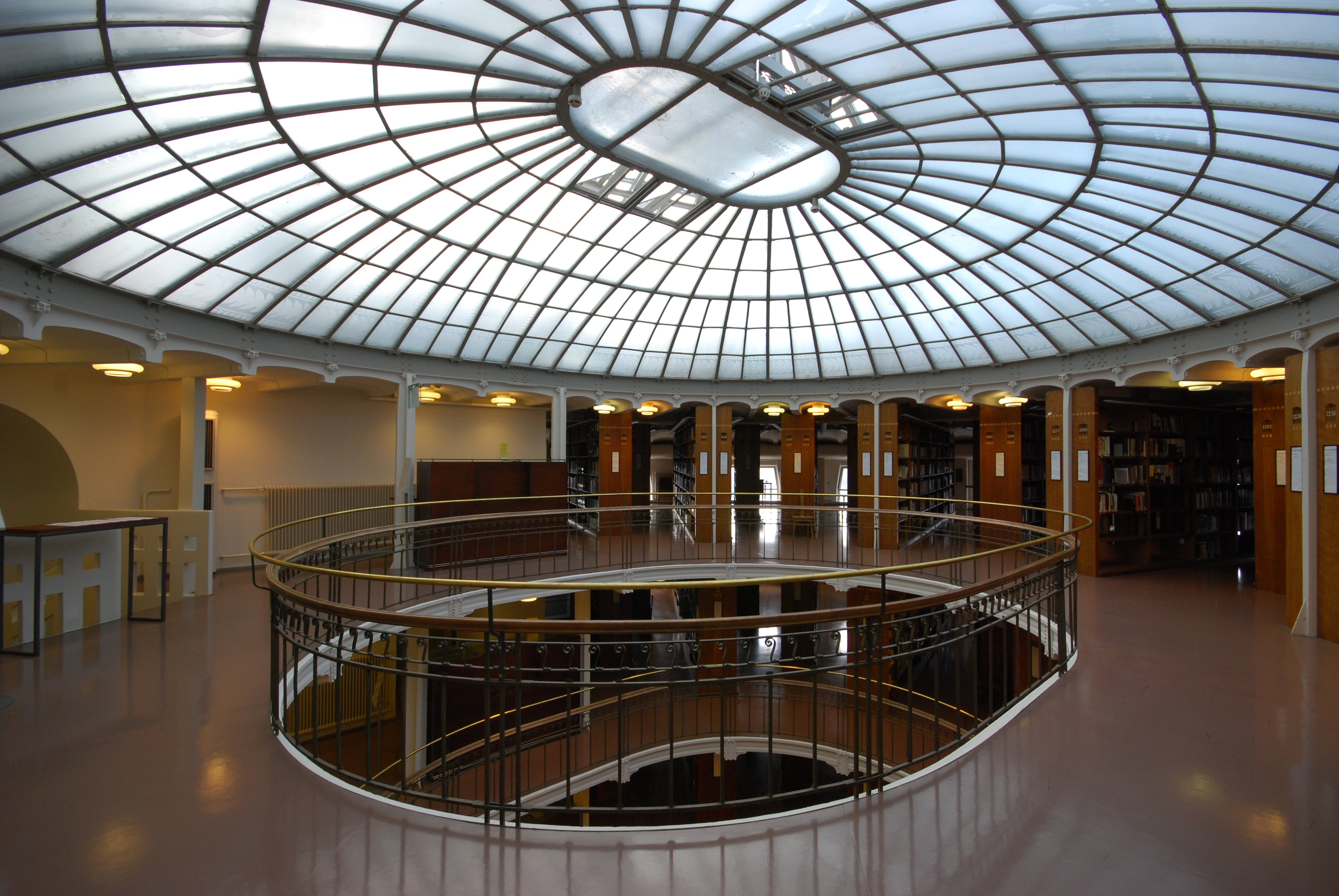 From The National Library of Finland, Helsinki, Finland